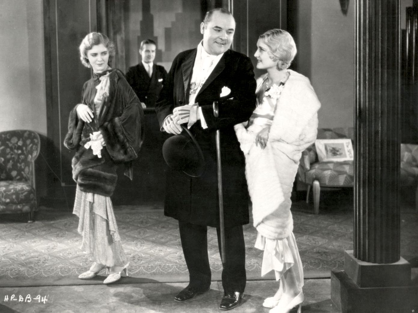 Publicity still for Party Girl (1930)